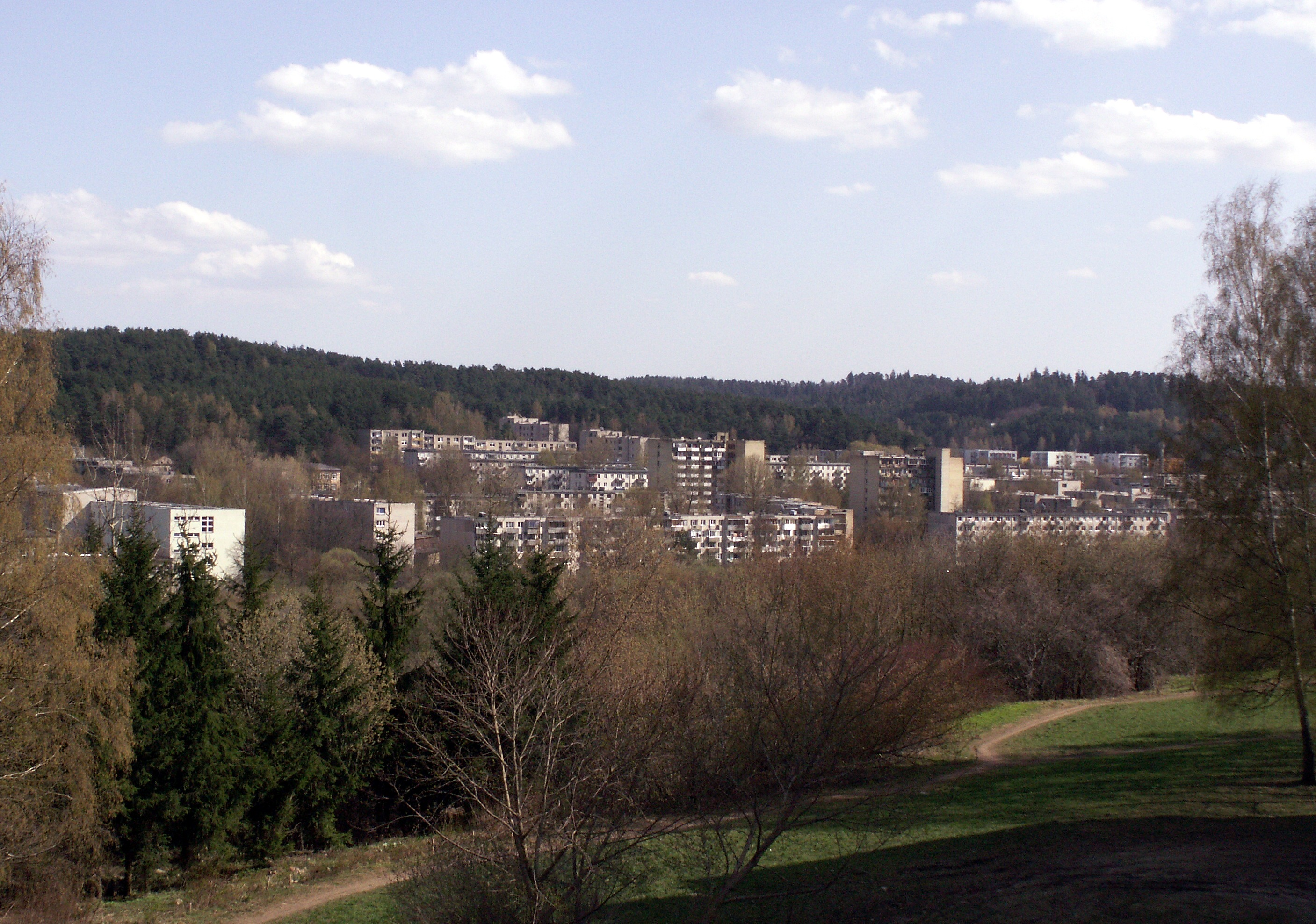 Antakalnis from Žirmūnai, Vilnius, Lithuania